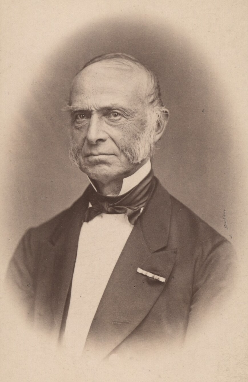 Carl Ludvig Christian Irminger (1802-1888), Danish Vice Admiral, Minister of the Royal Navy